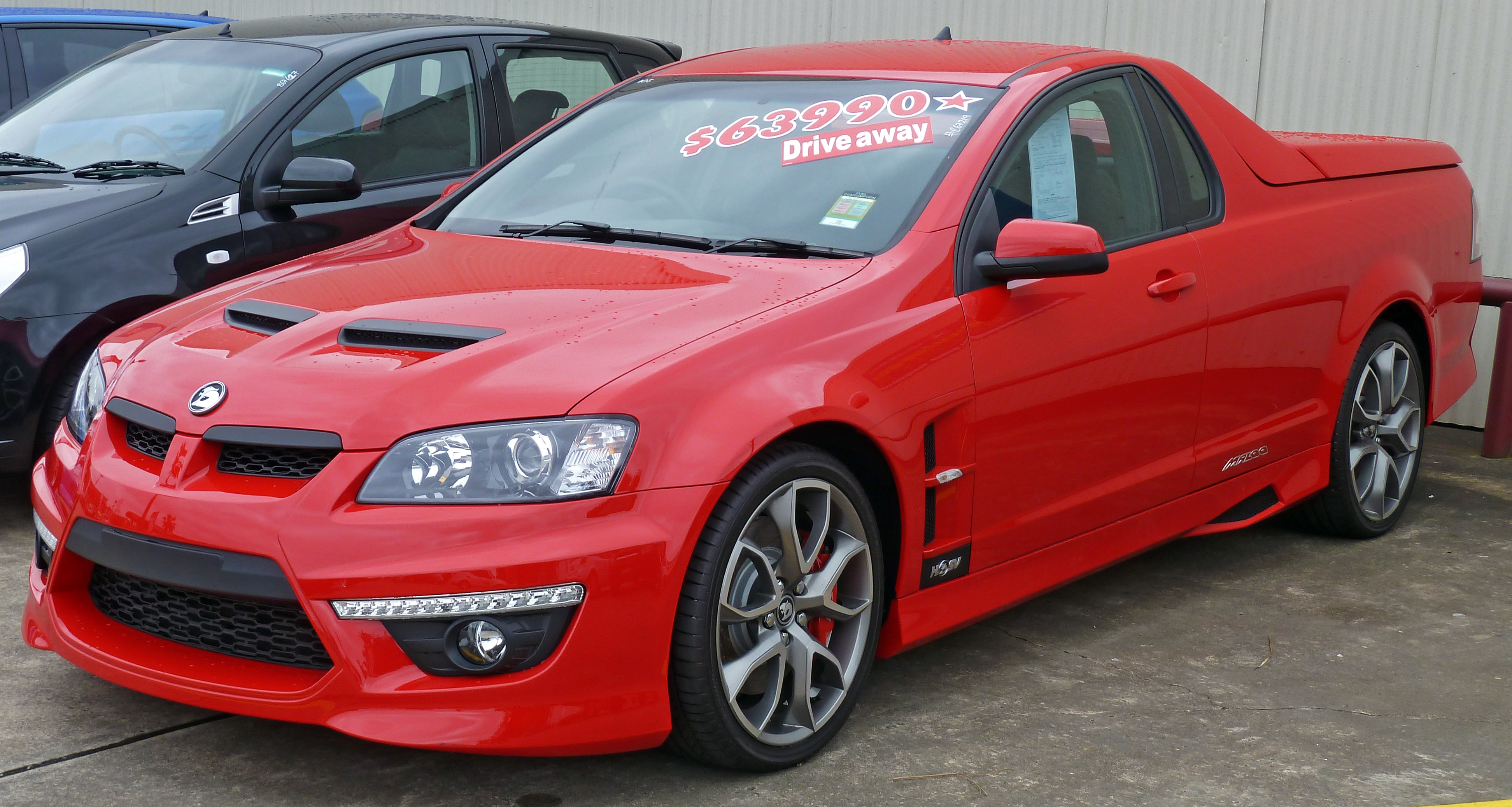 2010 HSV Maloo (E Series 2 MY10) R8 utility. Photographed at Suttons Holden, Chullora, New South Wales, Australia.